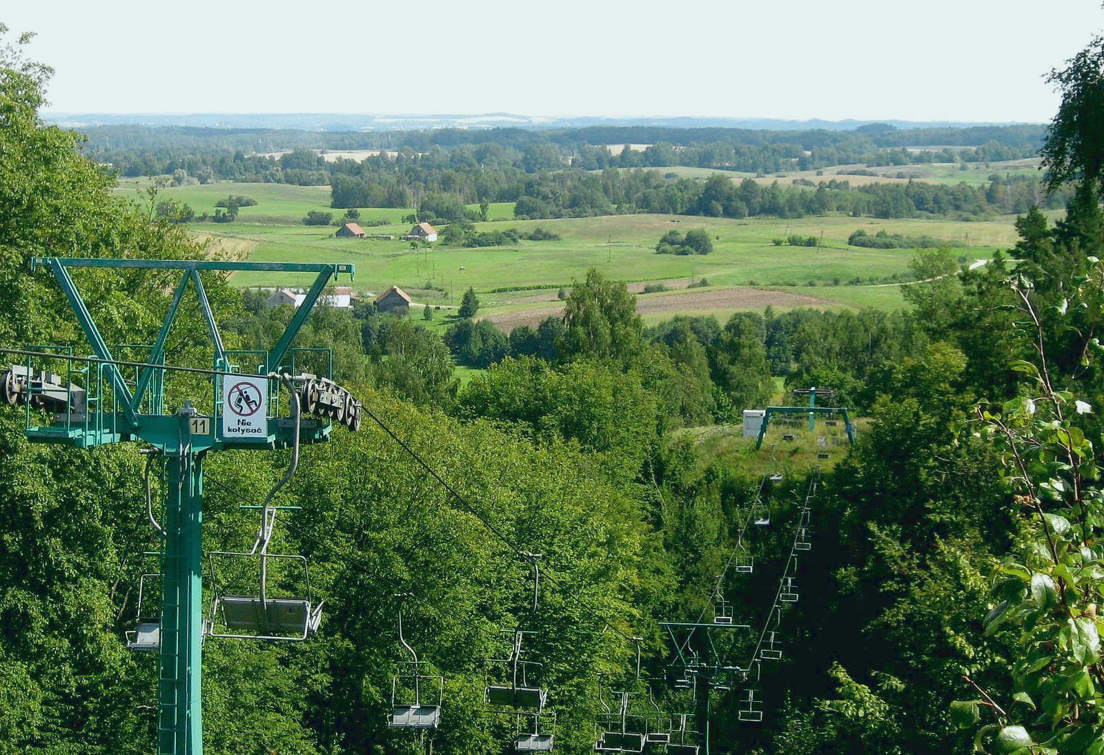 WIDOK NA WSCHÓD.